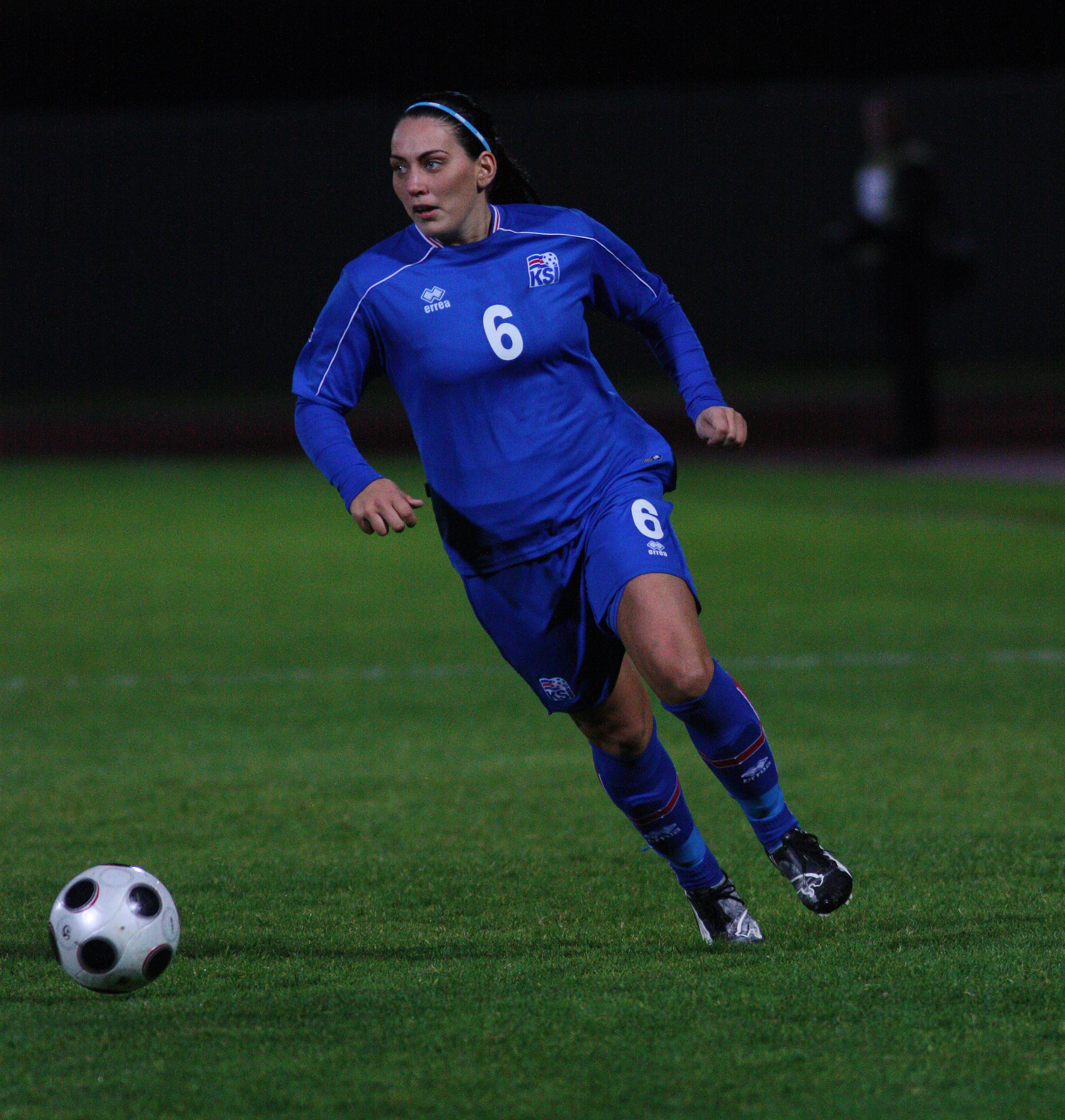 Hólmfríður Magnúsdóttir in Iceland - Estonia/2011 FIFA Women's World Cup qualification UEFA Group 1